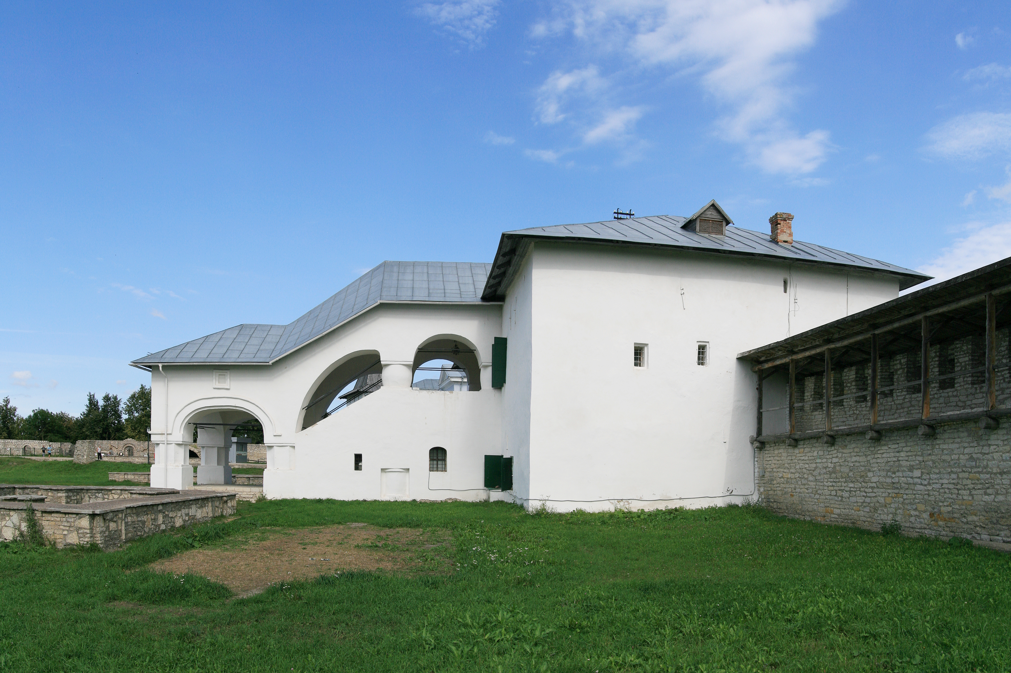 Administrative Chambers in Pskov Kremlin, XVII c